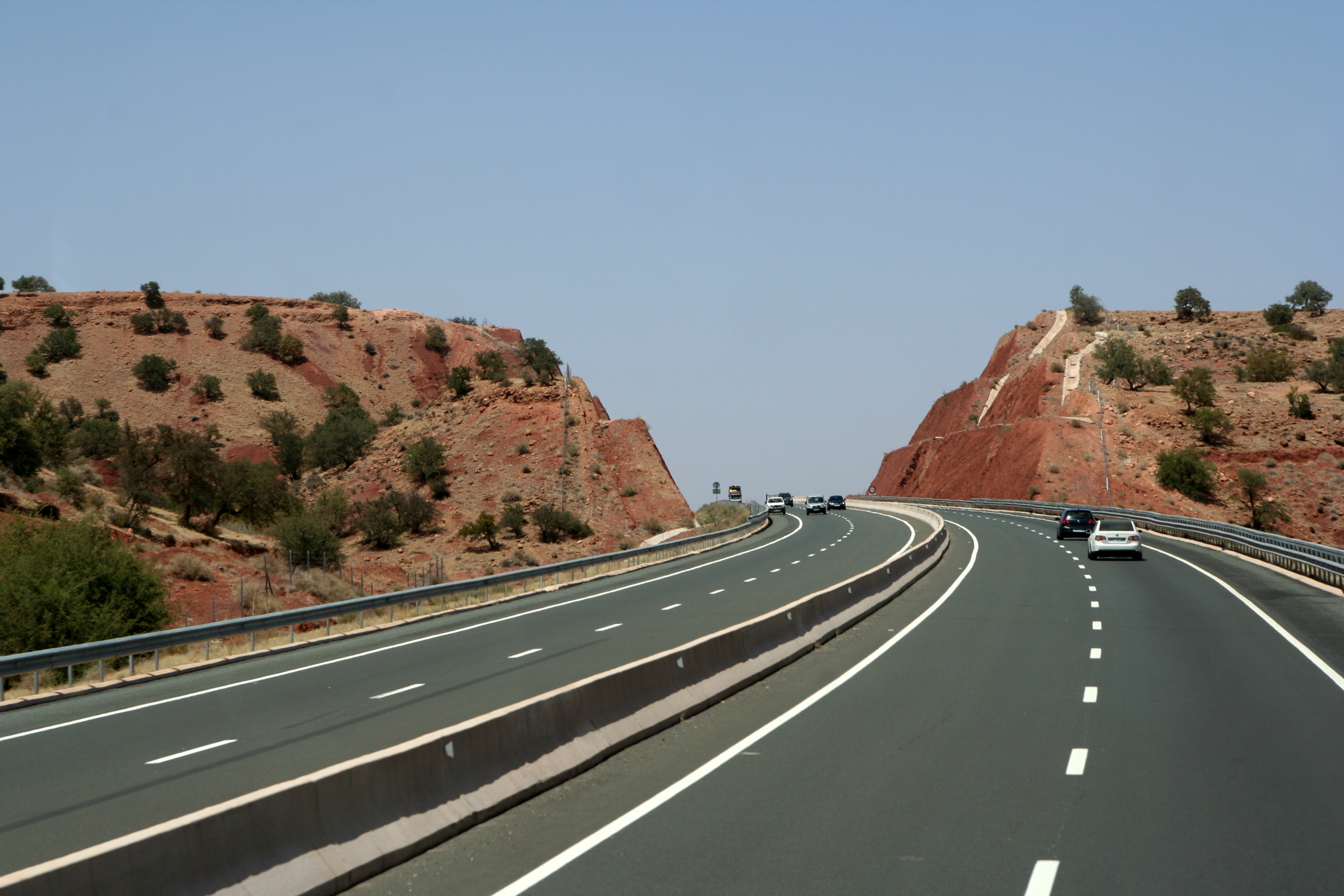 A7 motorway in Morocco